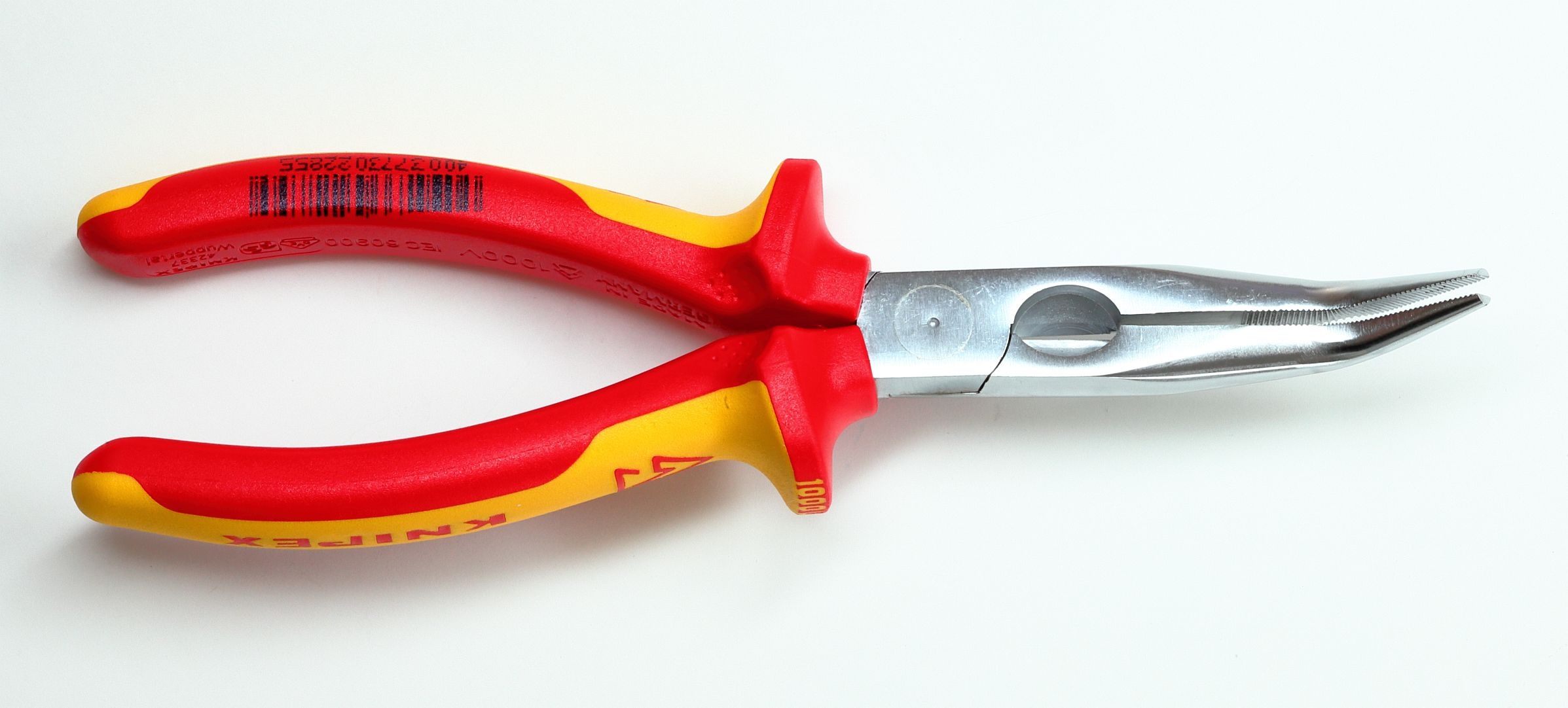 Bent Nose Plier